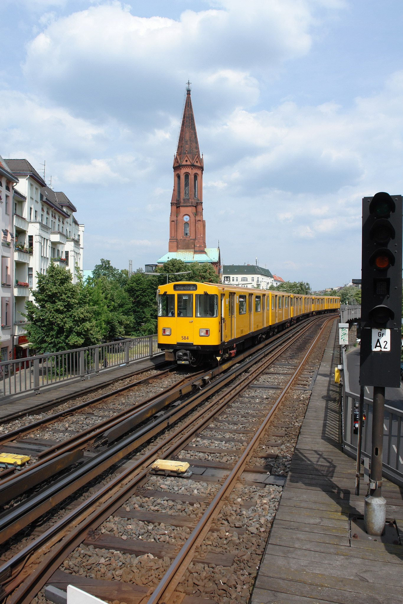 View from the subway stop Görlitzer Bahnhof towards the Lausitzer Platz in Berlin Kreuzberg.